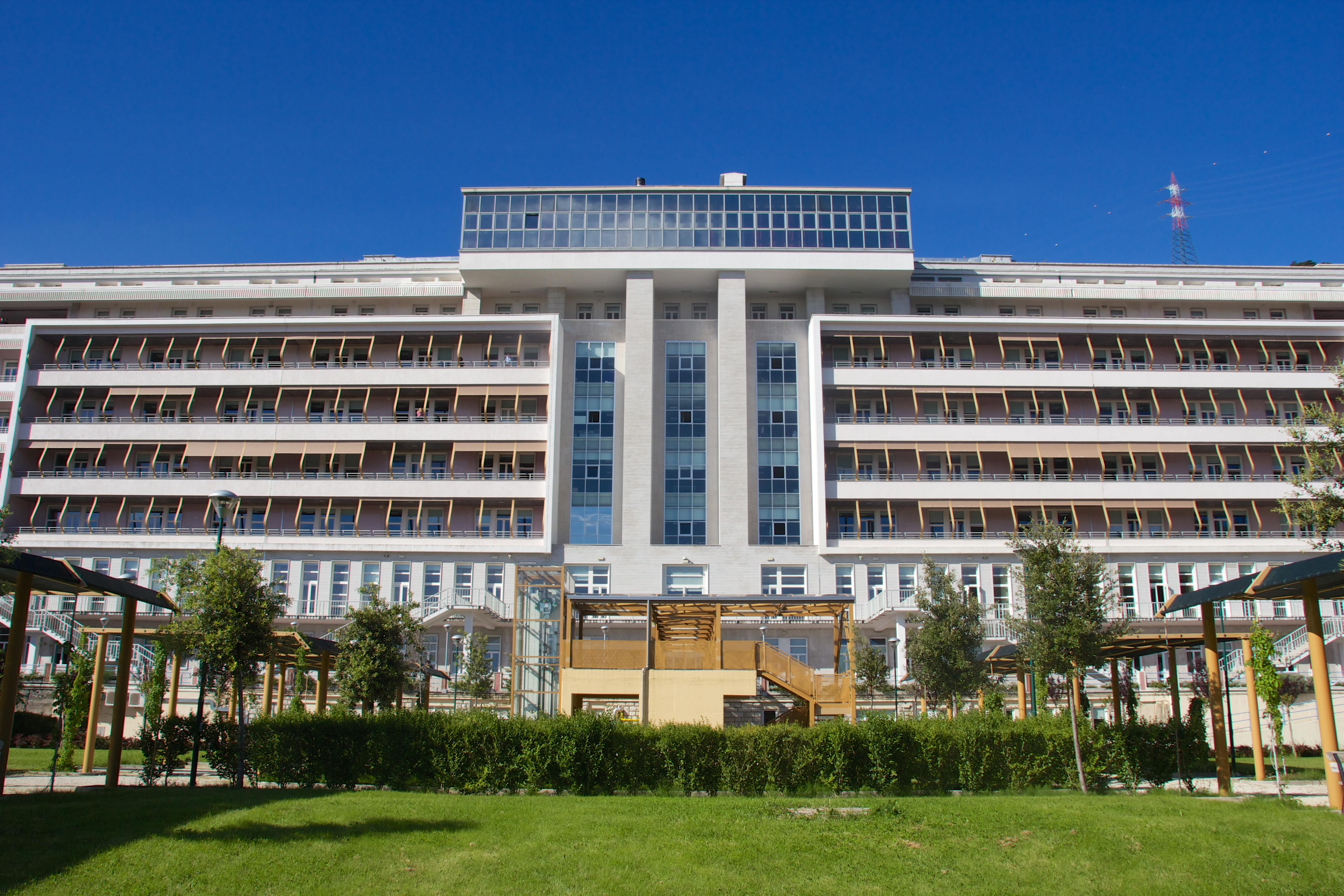 International School for Advanced Studies, Trieste.